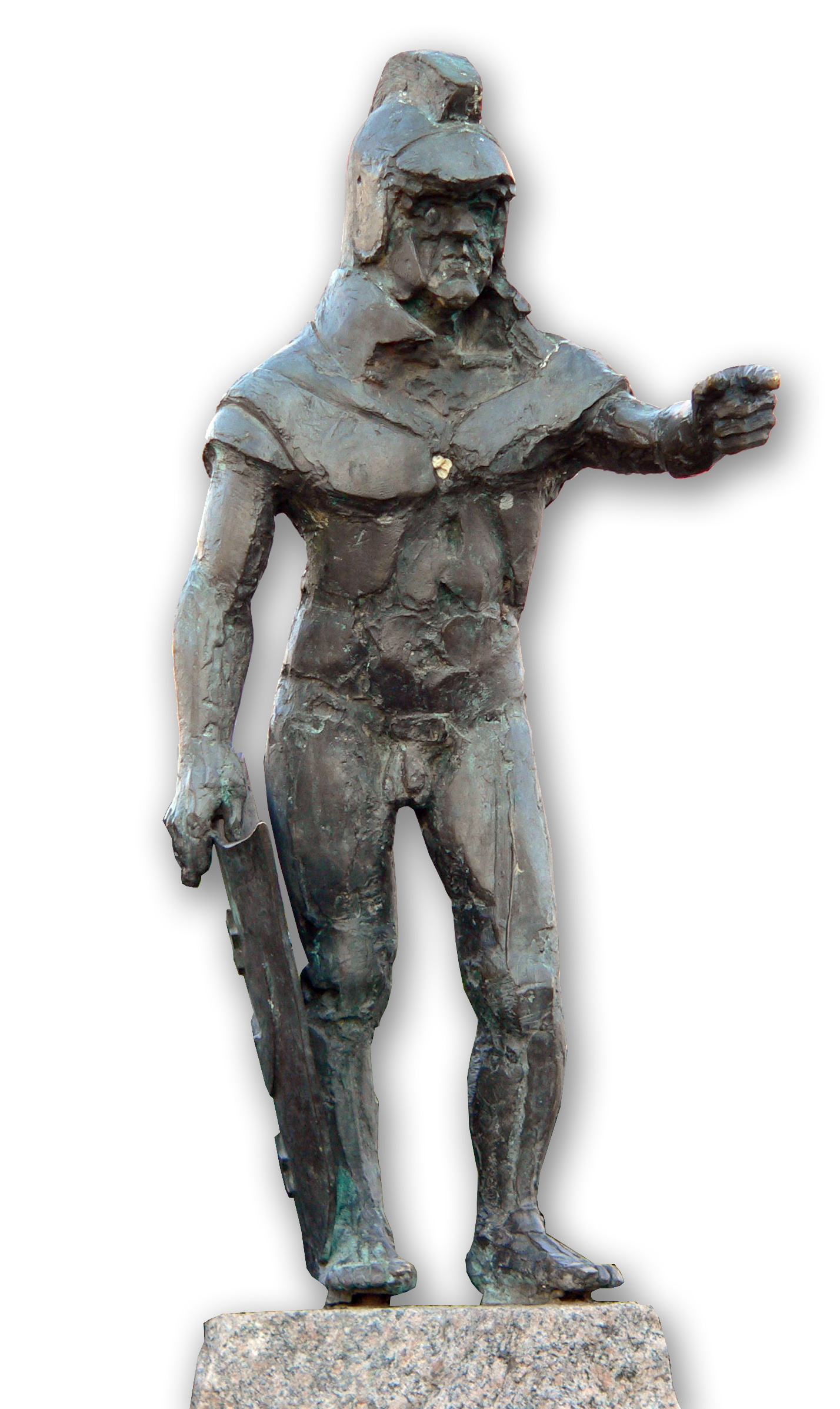 Sculpture Of Eberwin (donor) near the Guildhall of the small town Neckarsulm-Obereisesheim